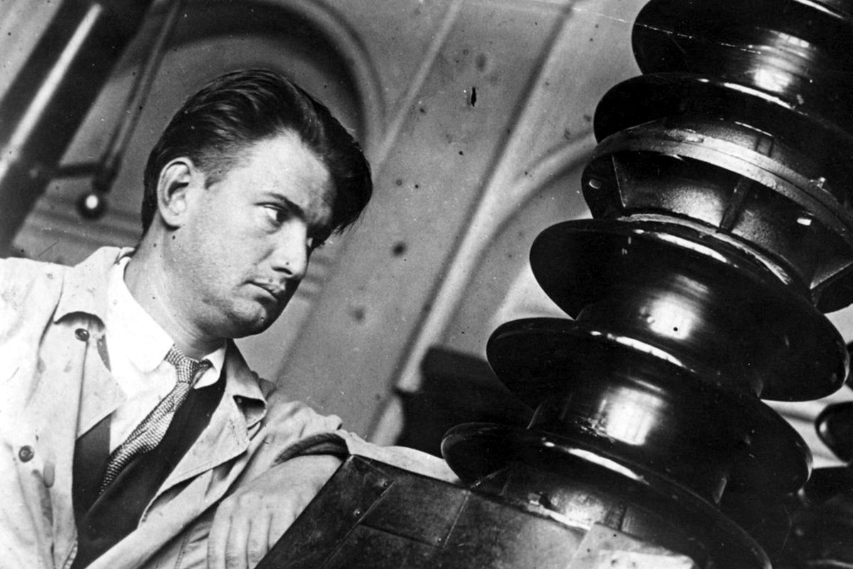 Igor Kurchatov — employee of the Radium Institute. Leningrad.